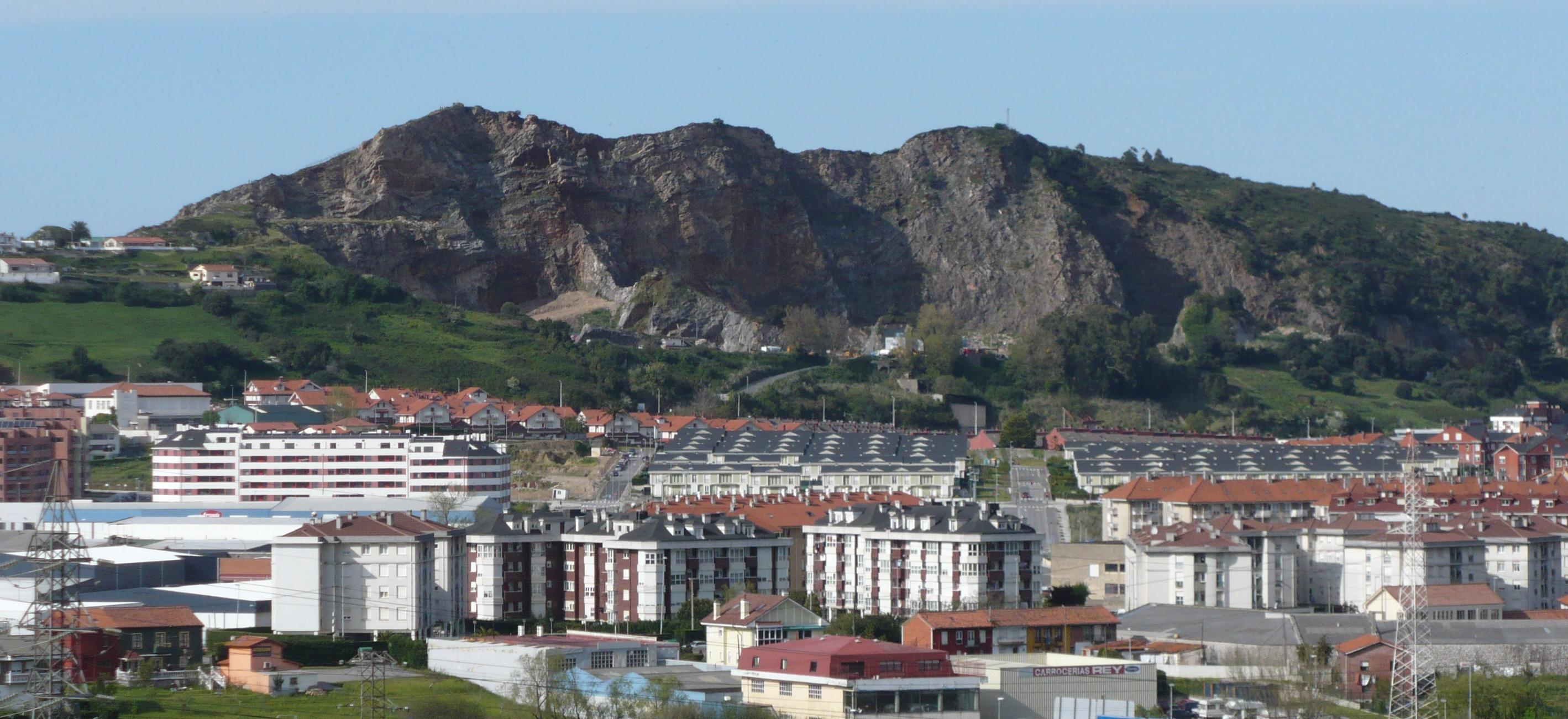 Mt. Peñacastillo (Santander, Cantabria)